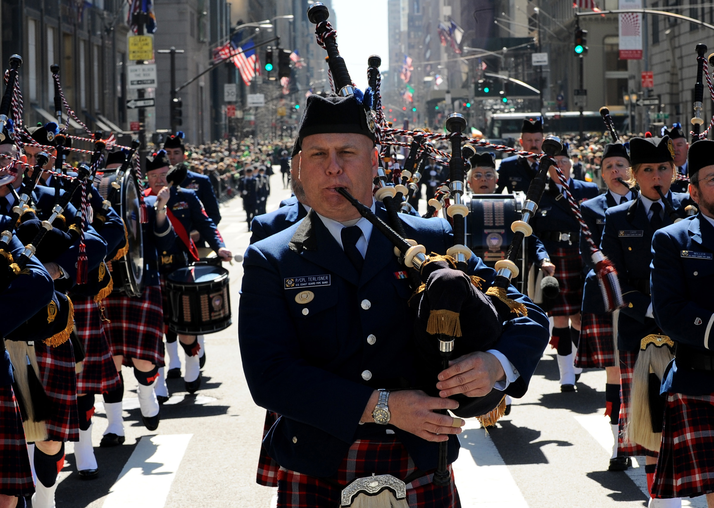 Members of the U.S. Coast Guard Pipe Band march up Fifth Avenue in the 250th St. Patrick's Day Parade, Manhattan, N.Y., March 17, 2010. This year marks the 250th iteration of the longest running and largest St. Patrick's Day Parade in the U.S.